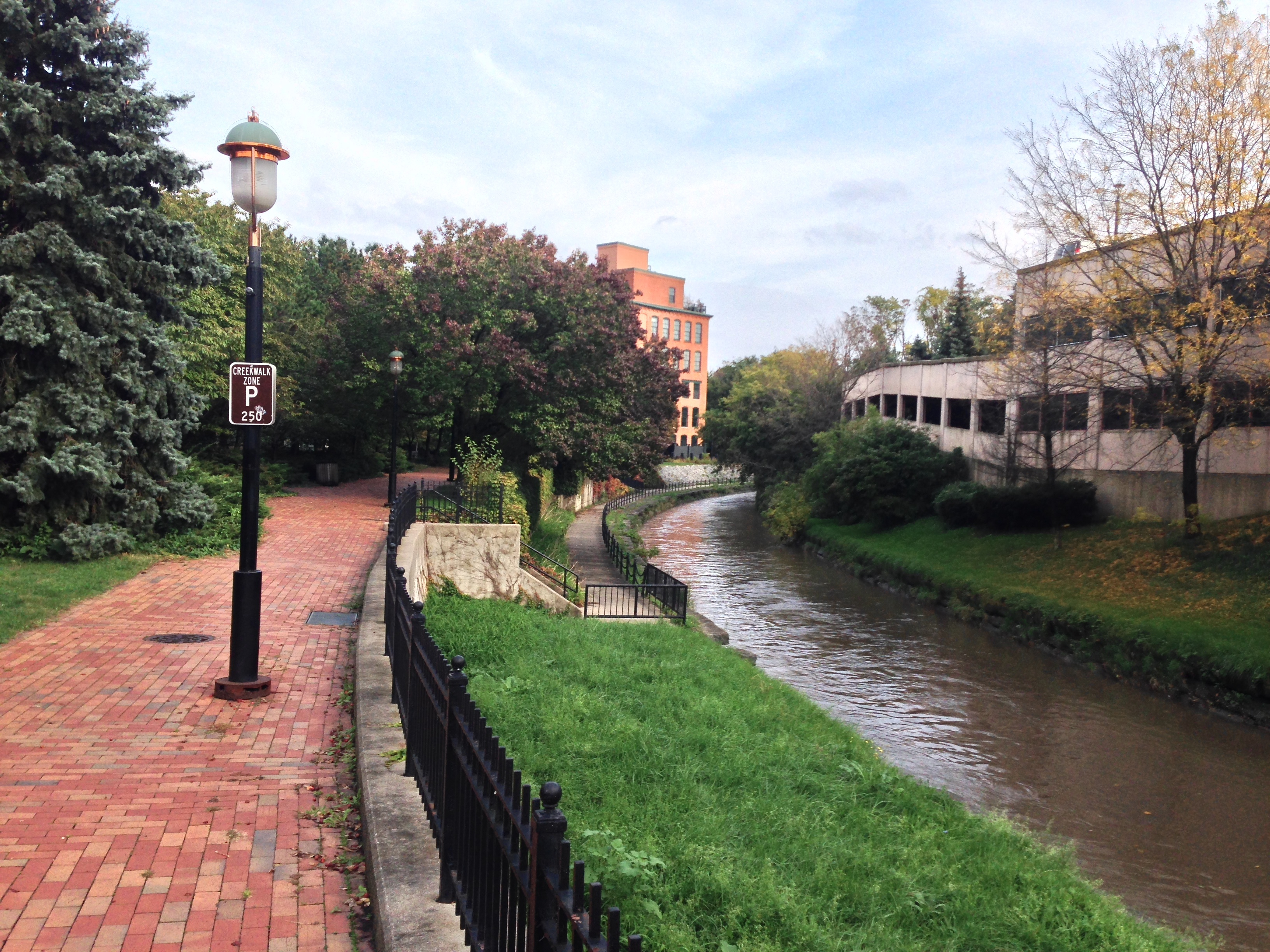 Onondaga Creekwalk in the Franklin Square neighborhood. Syracuse, NY.